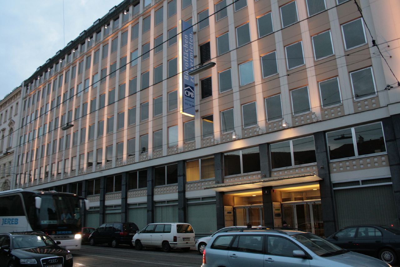 A photo of my Dad's former office in Prinz Eugen Strasse.